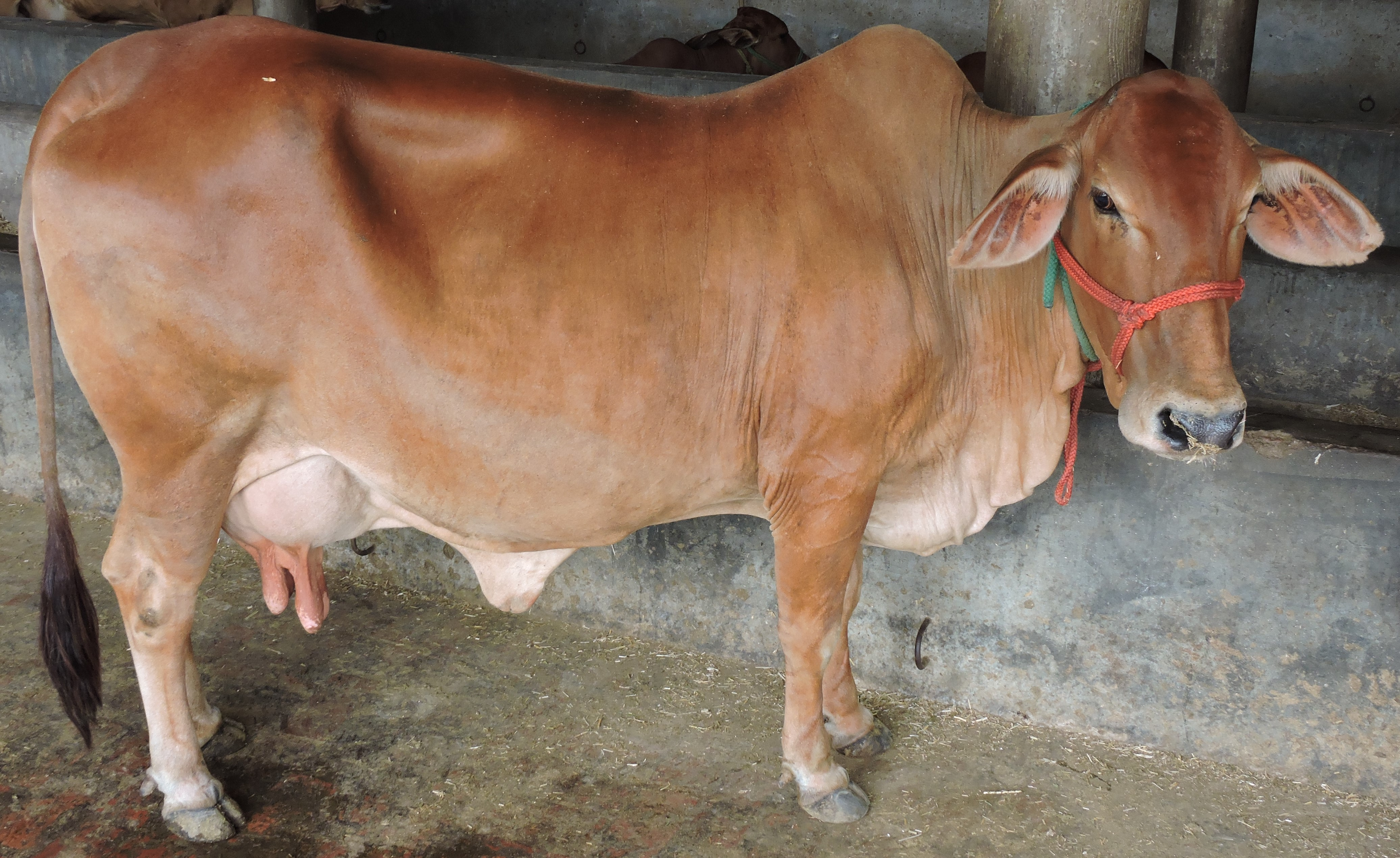 Sahiwal- breed cow at the dairy unit attached to Bhai Ram Singh Memorial (Gurudwara) , Bhaini Sahib ,Ludhyana, Punjab ,India